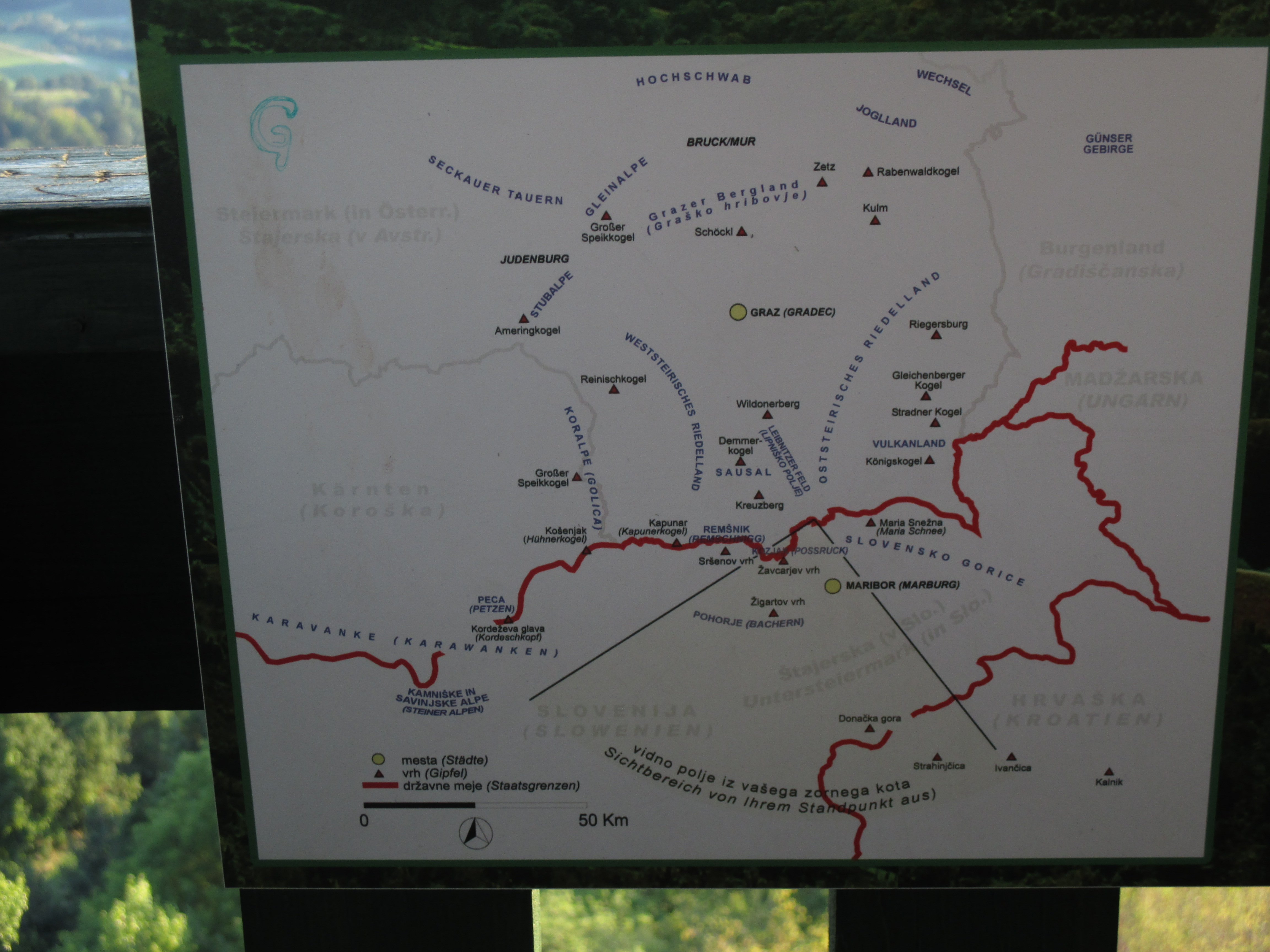 View Map Placki vrh